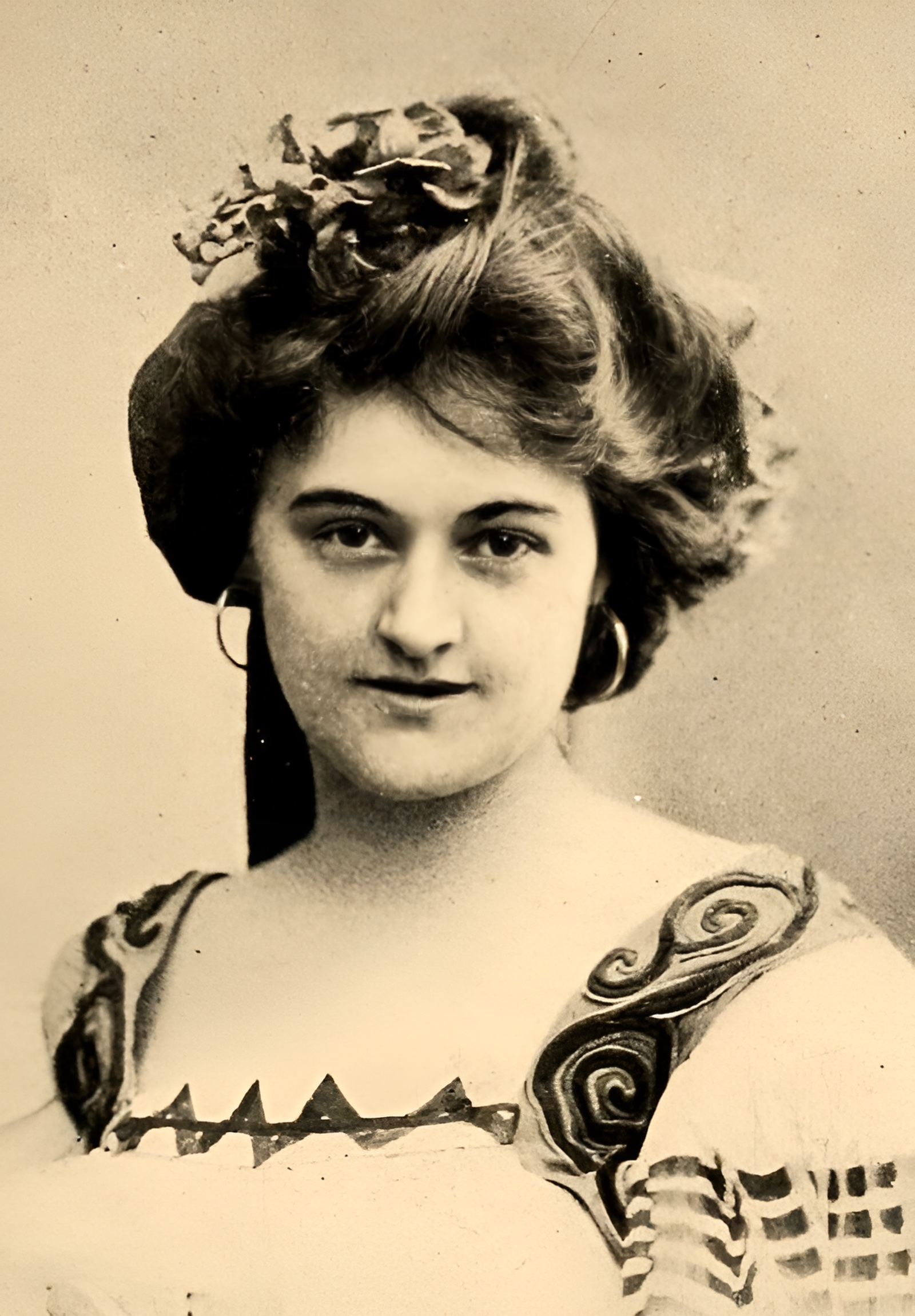 Helen Bertram, from a 1901 publication. A young white woman with dark hair in a bouffant updo, wearing hoop earrings and a bodice with a square, embellished collar.